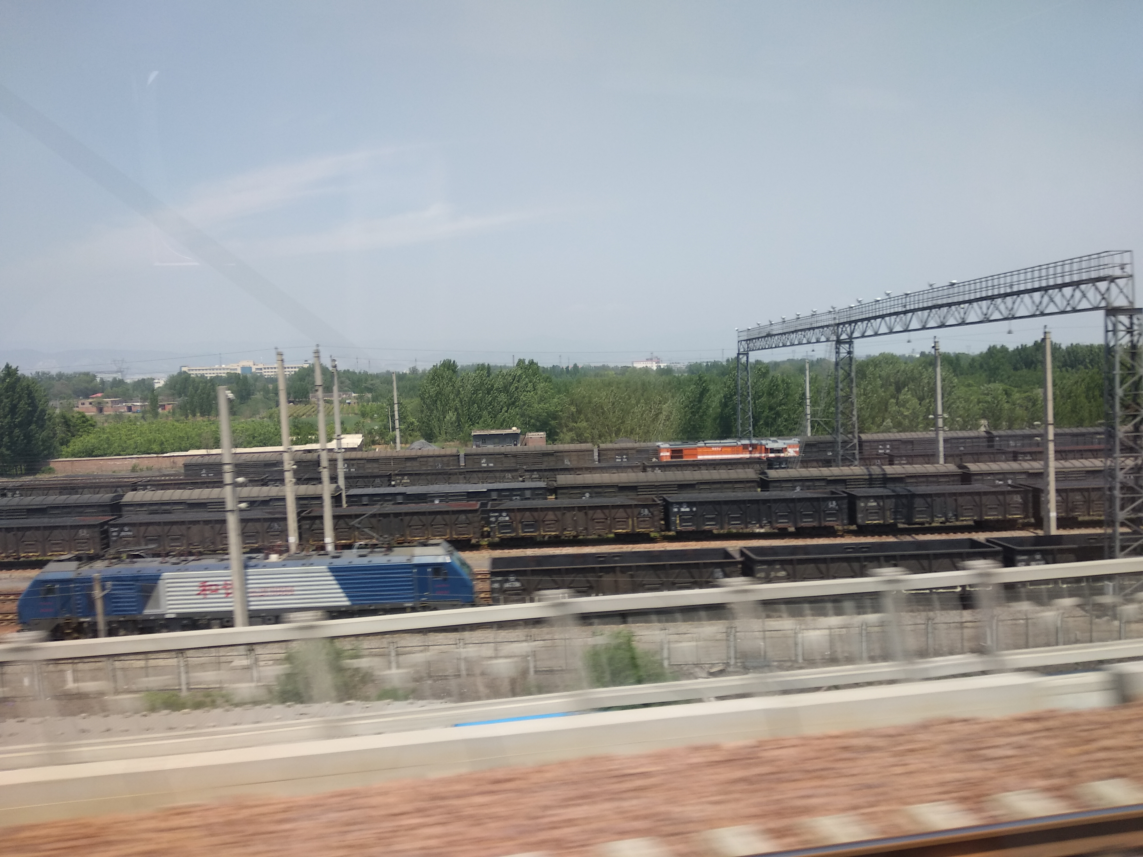 This station is on the east of Jiaozuo, on Xinxiang-Yueshan Railway.